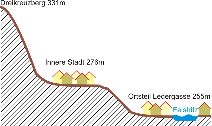 Cross section of town Fürstenfeld